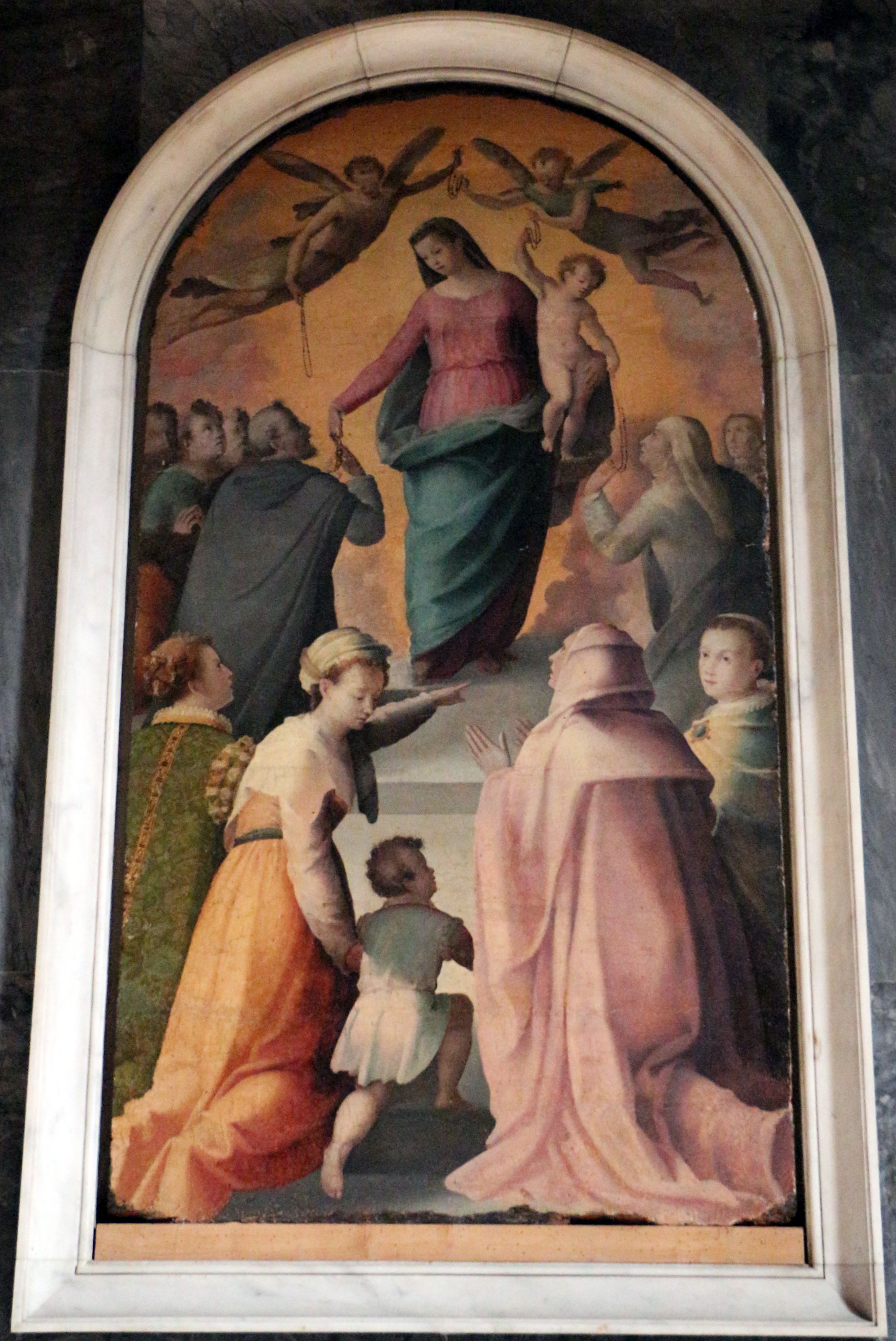 San Giovanni Battista (Pomarance)